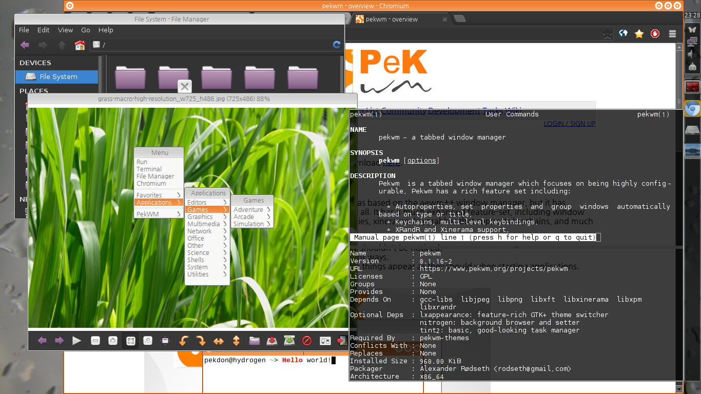 PekWM running on Arch Linux